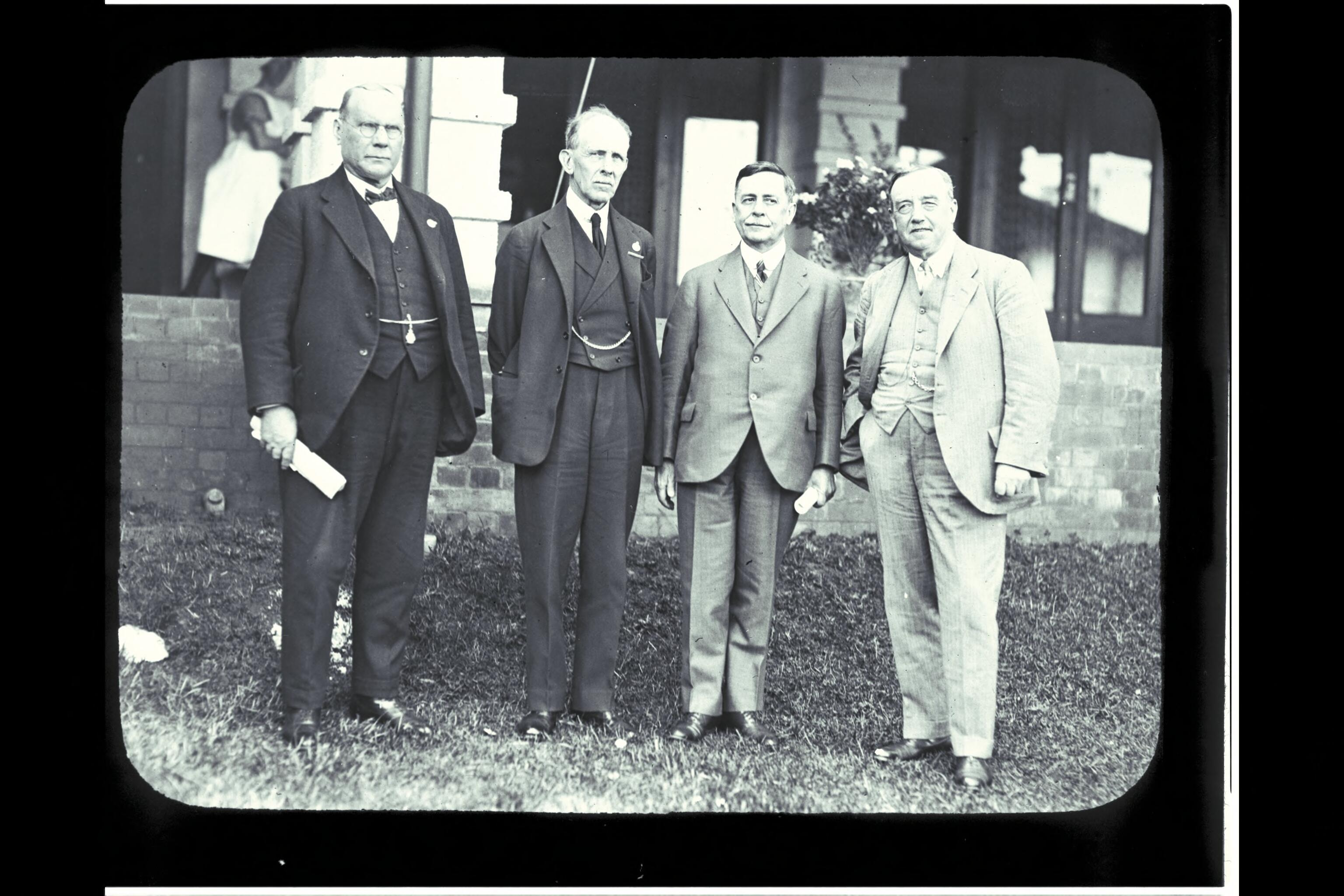 Attendees at a meeting of the Empire Parliamentary Association in Australia in October 1926. L-R: John Newlands, President of the Australian Senate; Lord Salisbury, Leader of the British House of Lords; Littleton Groom, Speaker of the Australian House of Representatives; Arthur Henderson, Chief Whip of the British Labour Party.